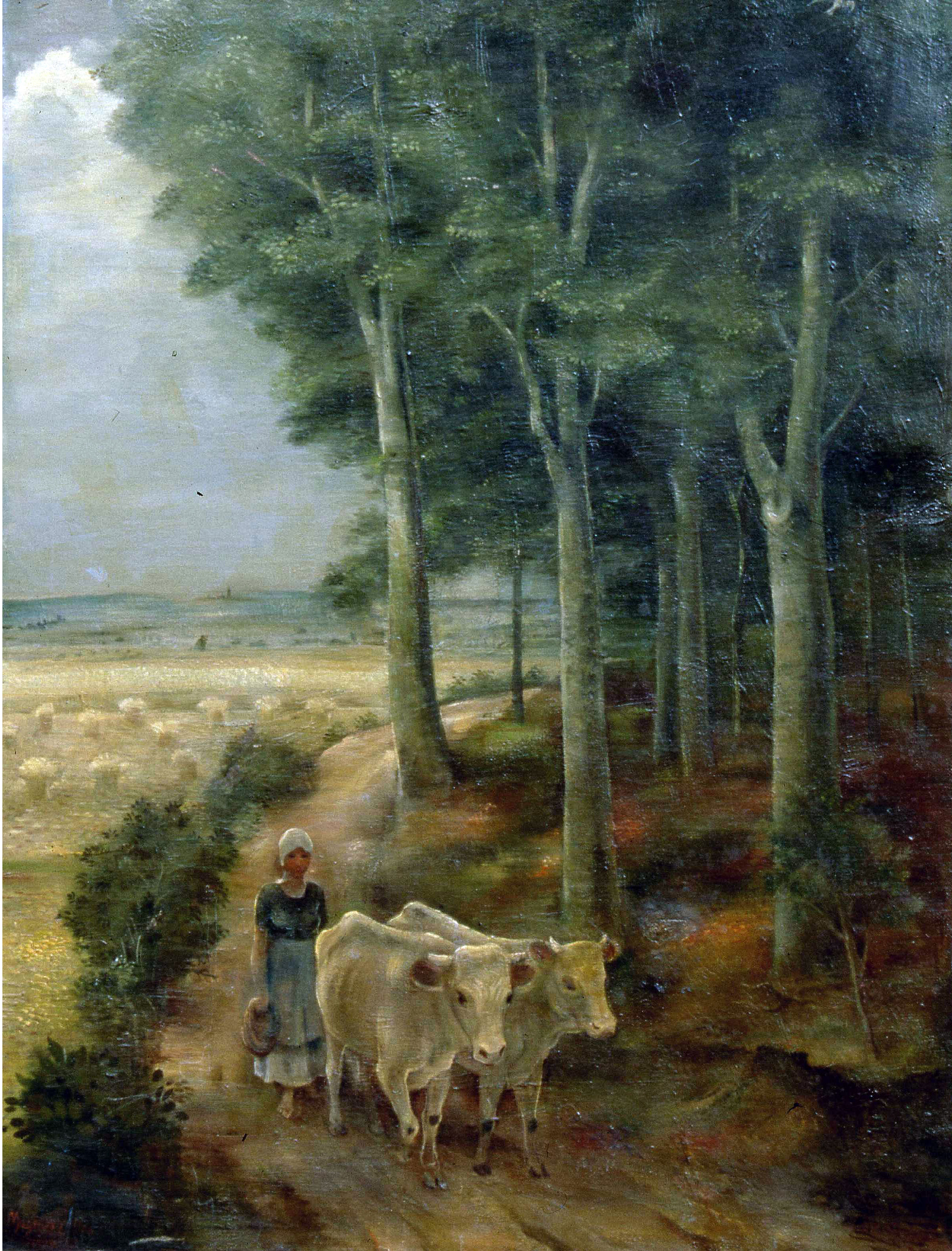 Girl with cows